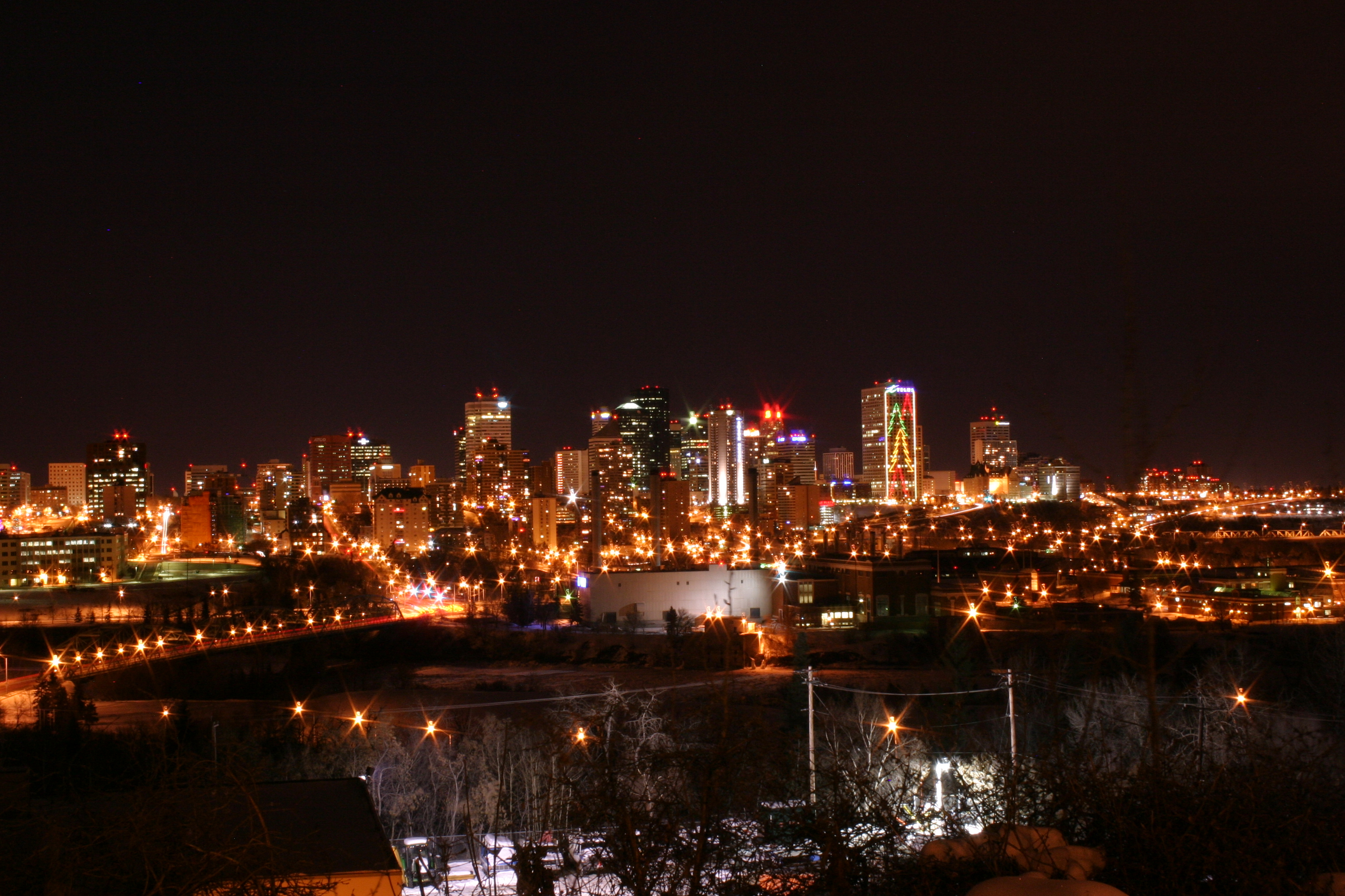 Edmonton, Canada city skyline at night (Source description: From across the river)